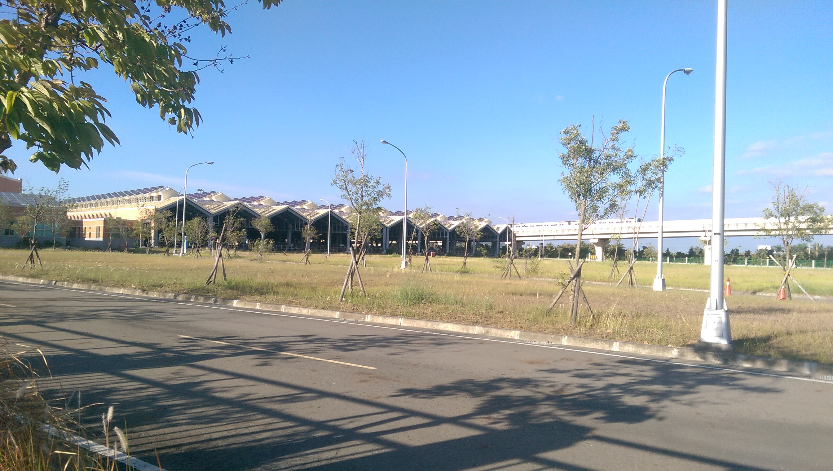 Kaohsiung MRT North Depot